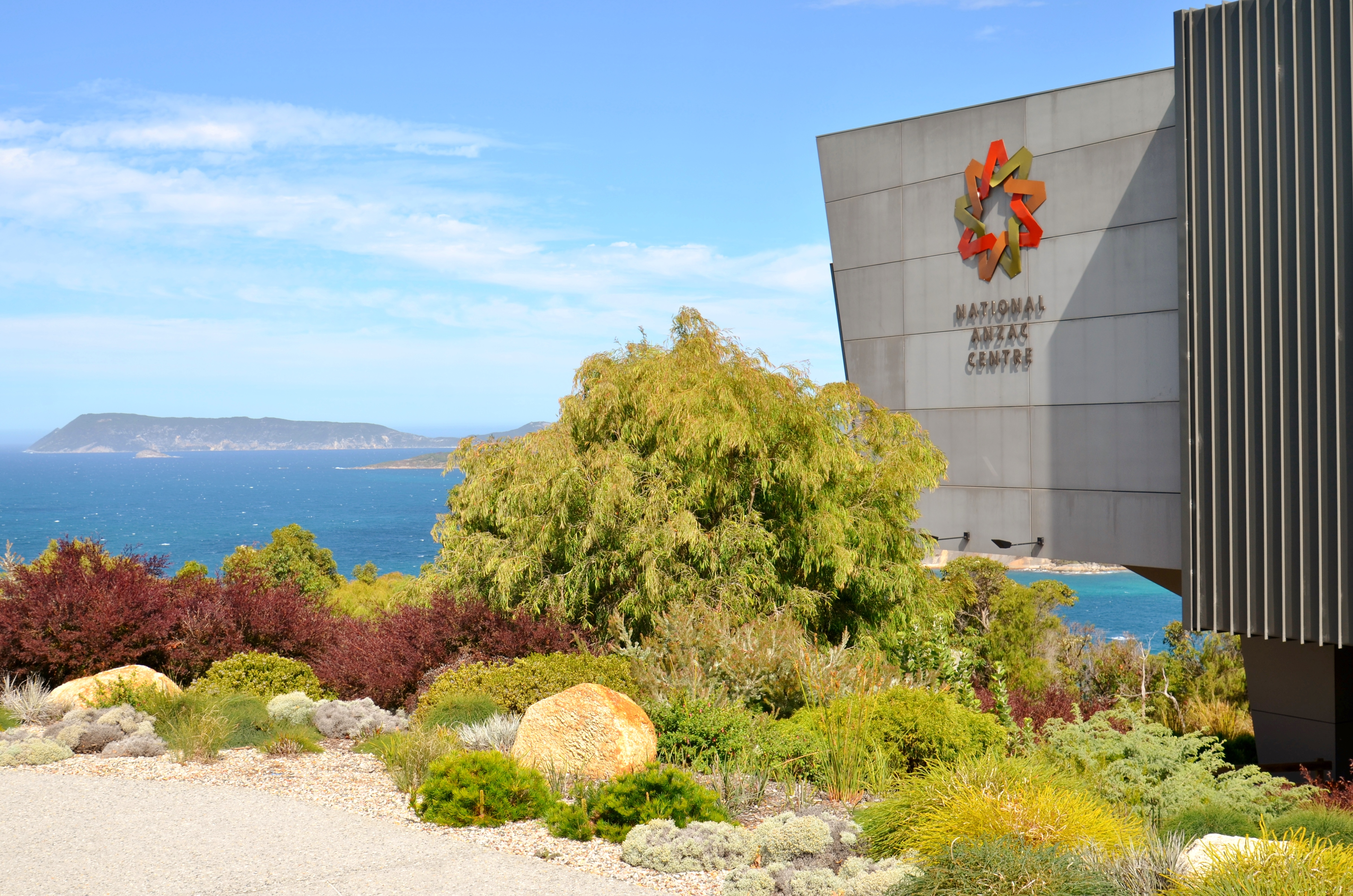 View of the National Anzac Centre, Princess Royal Fortress, Albany, Western Australia, with King George Sound (Western Australia) in the background